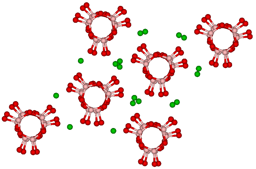 Crystal structure of β-BaB2O4 (BBO) viewed along the the c-axis. Colors: green - Ba, pink - B, red - O. (1990). "Thermal Expansion of the Low-Temperature Form of BaB2O4". Journal of the American Ceramic Society 73 (8): 2526–2527.